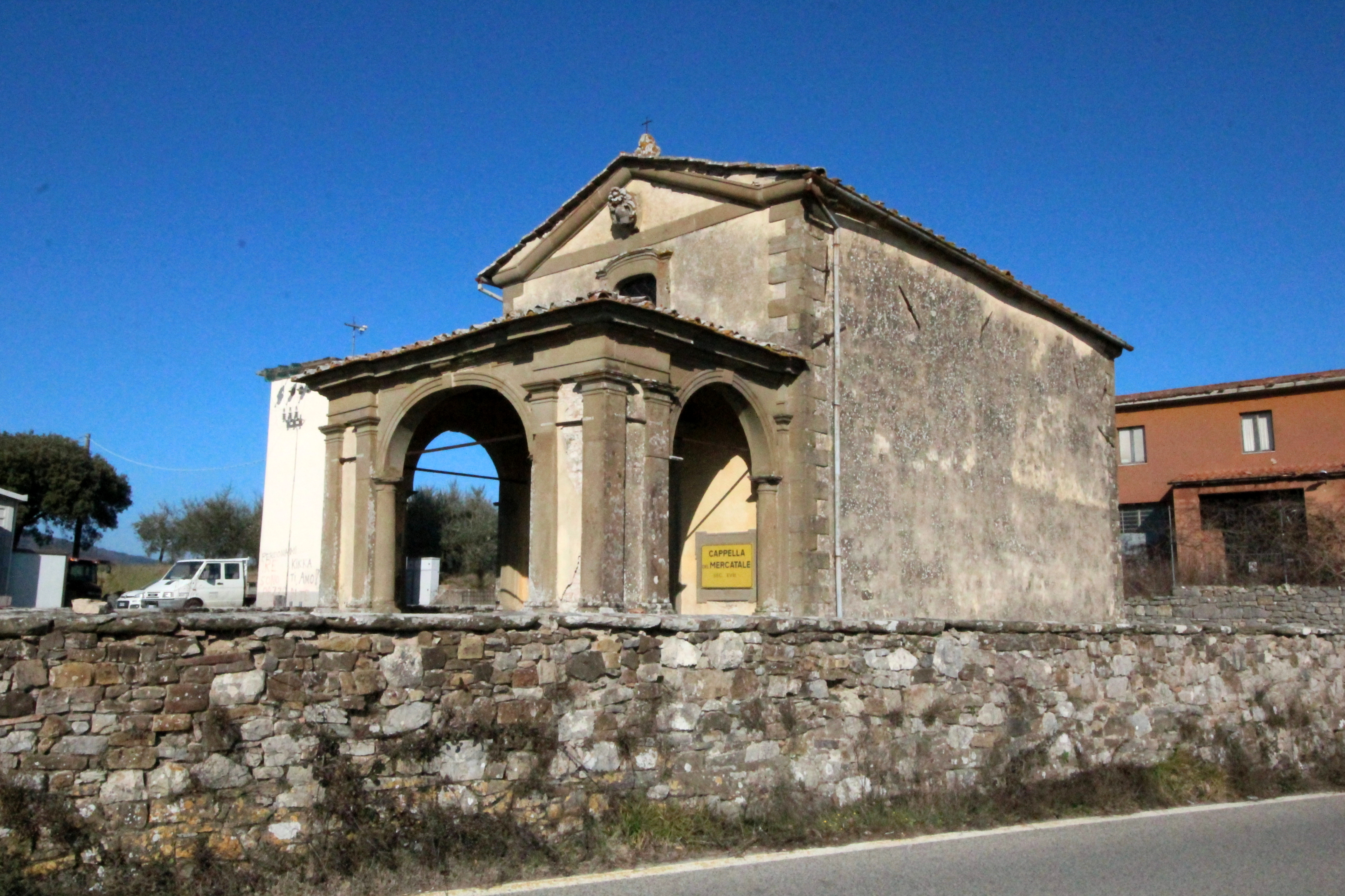 Chapel Cappella di Santa Maria Maddalena dei Pazzi, also called Cappella del Mercatale, Radda in Chianti, Province of Siena, Italy.